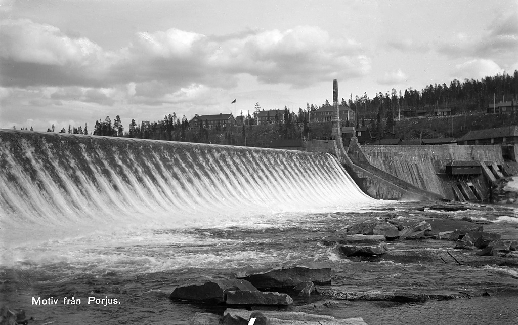 The dam of Porjus water power plant in Stora Luleälven river in Lapland. The power station was inaugurated in 1915. Dammen vid Porjus vattenkraftverk i Stora Lule älv. Kraftstationen invigdes 1915. Parish (socken): Jokkmokk Province (landskap): Lappland Municipality (kommun): Jokkmokk County (län): Norrbotten Photograph by: Unknown. Almquist & Cöster Date: 1930-1949 Format: Cliché, film with text Persistent URL: Read more about the photo database (in english)